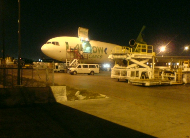 ARROW DC-10 at night